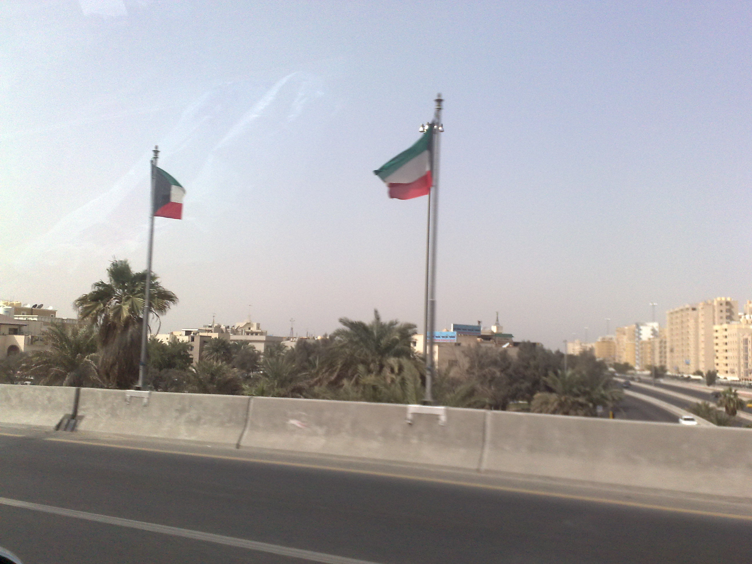 This is the picture of the ring road in Kuwait